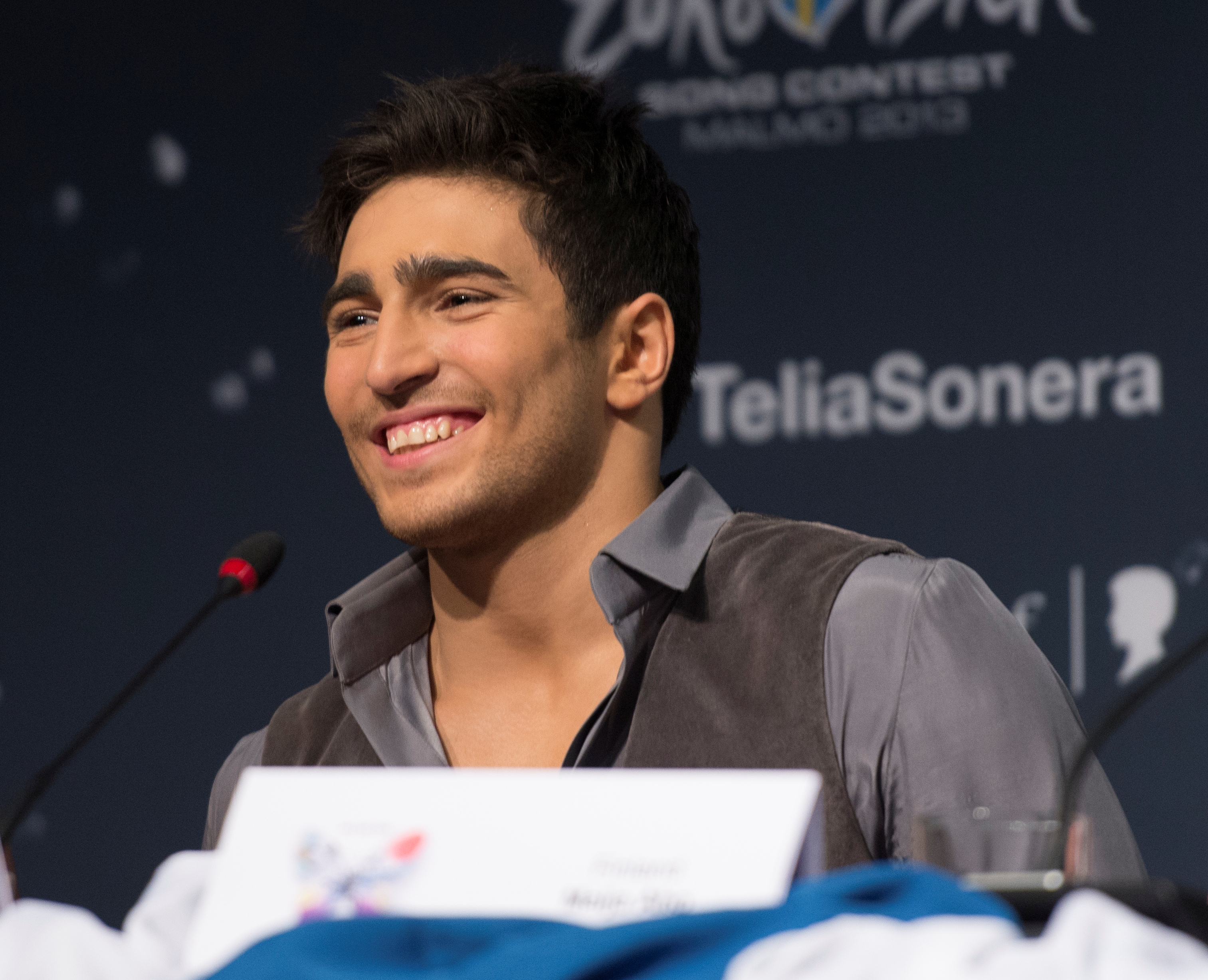 Az at a press conference during the Eurovision Song Contest 2013 in Malmö. (Help translate this text)